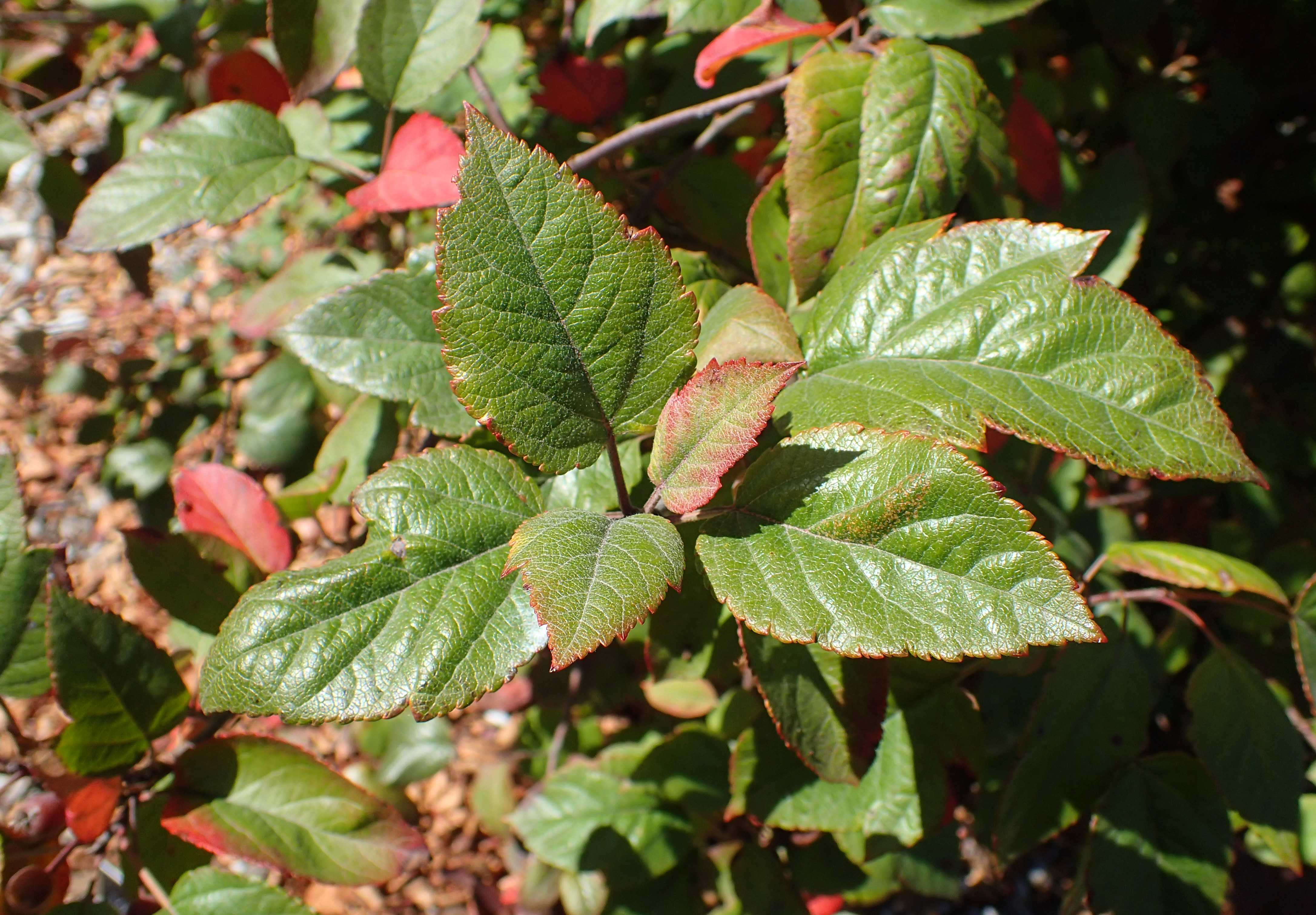 Malus fusca in the Humboldt Botanical Garden, Eureka, Ca